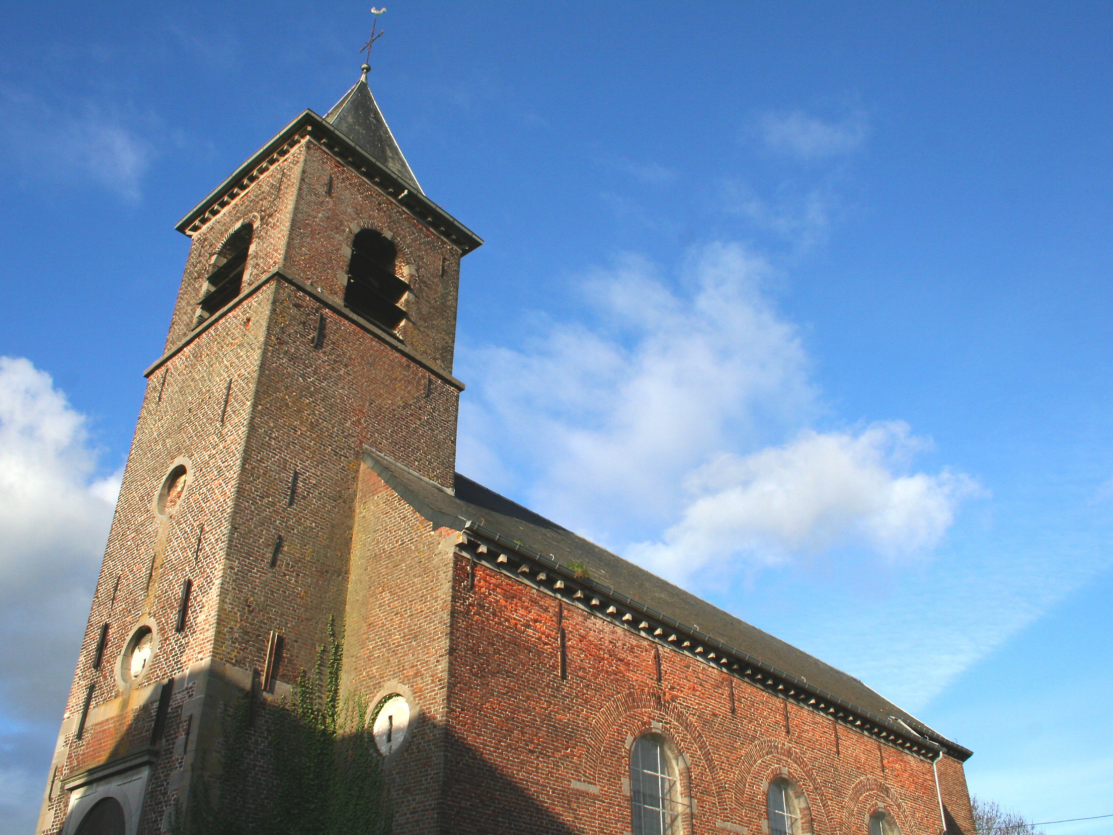 Lanquesaint (Belgium), the Saint Martin’s church (1791).